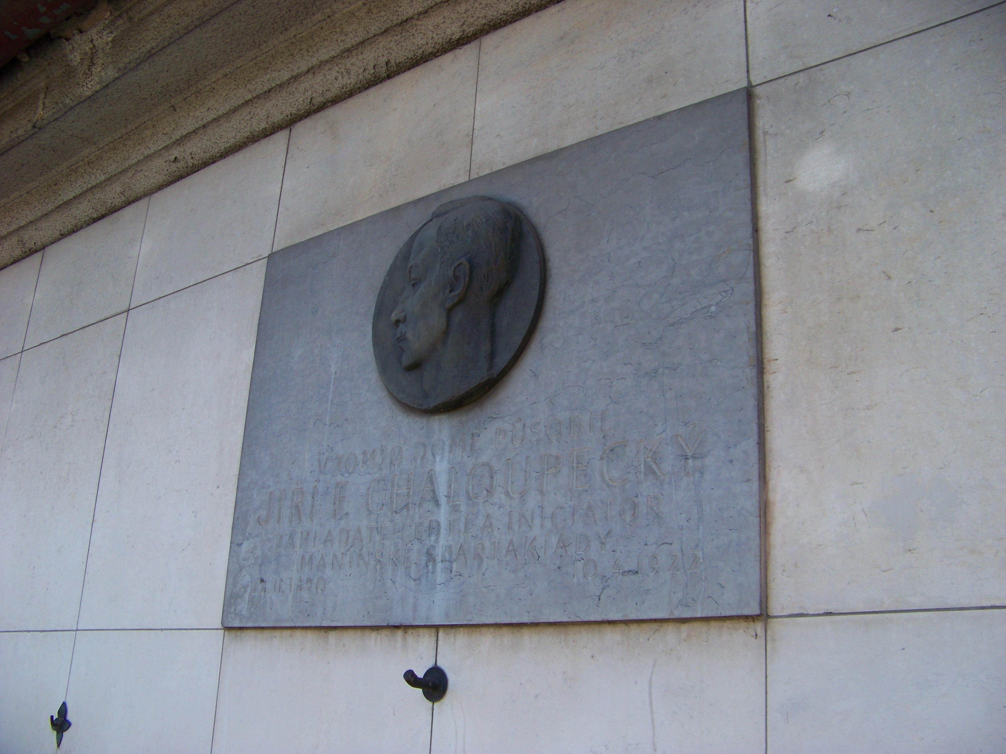 Prague-Dolní Počernice. Českobrodská 34, a plaque to Jiří František Chaloupecký. Formerly